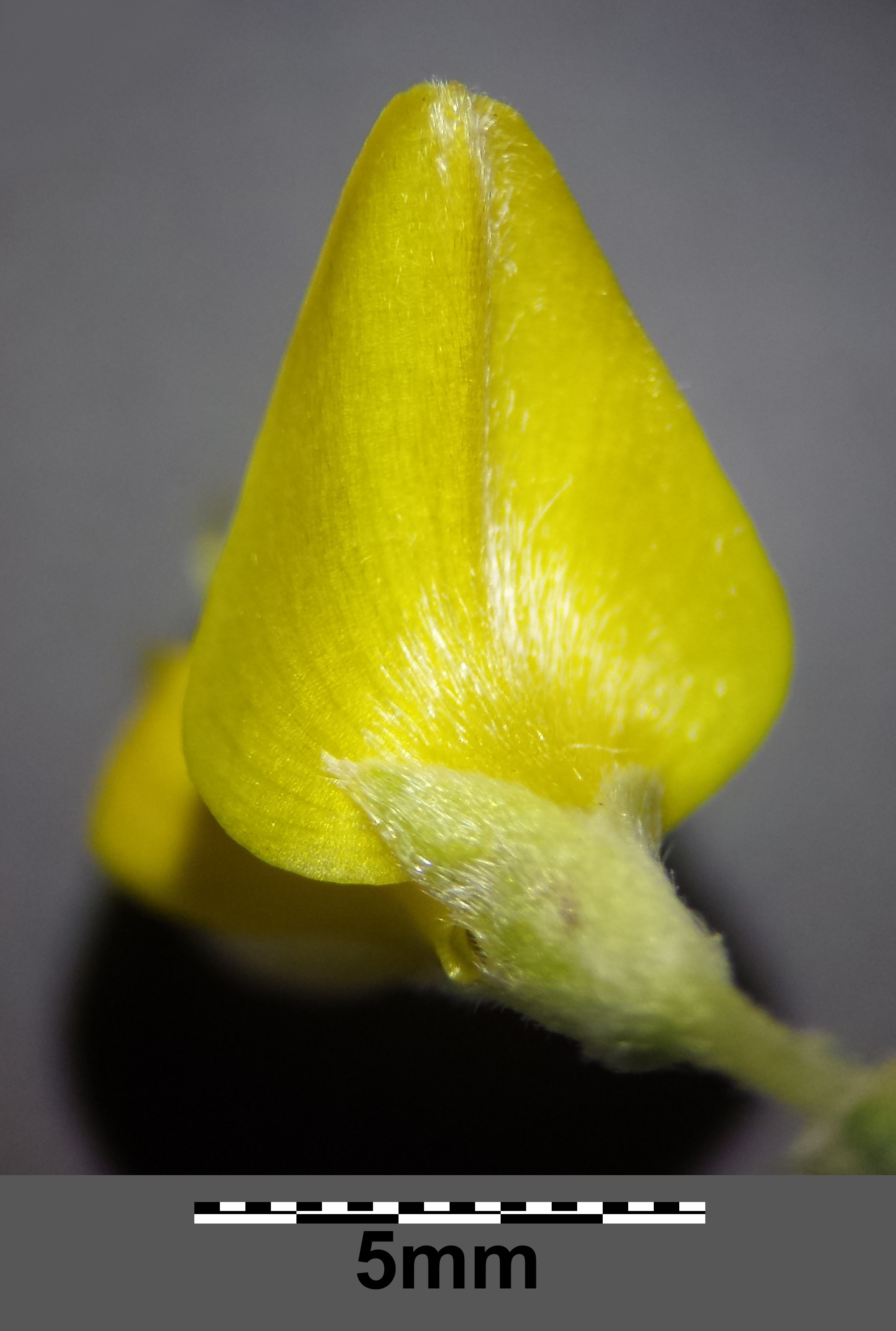 Flower with hairy banner Taxonym: Genista pilosa ss Fischer et al. EfÖLS 2008 ISBN 978-3-85474-187-9 Location: Gollitsch near Retz, district Hollabrunn, Lower Austria - ca. 325 m a.s.l. Habitat: dry grassland